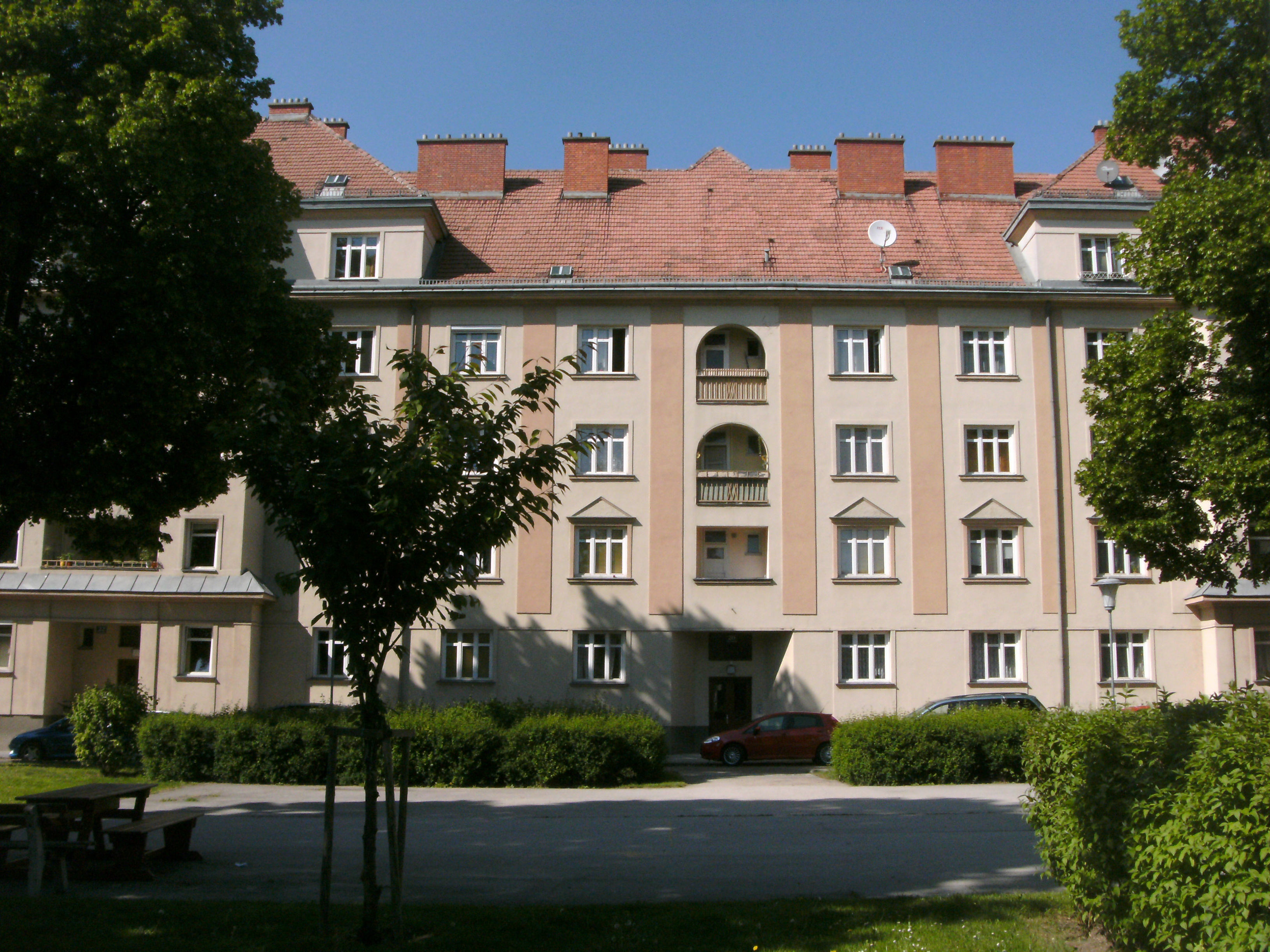 Municipal residential building in Wickhoffgasse 14-26, Vienna's 15th district